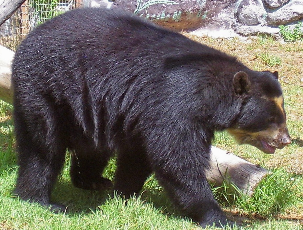 Spectacled or Andean bear (Tremarctos ornatus), a resident of the cloud forest, at the Quito zoo.